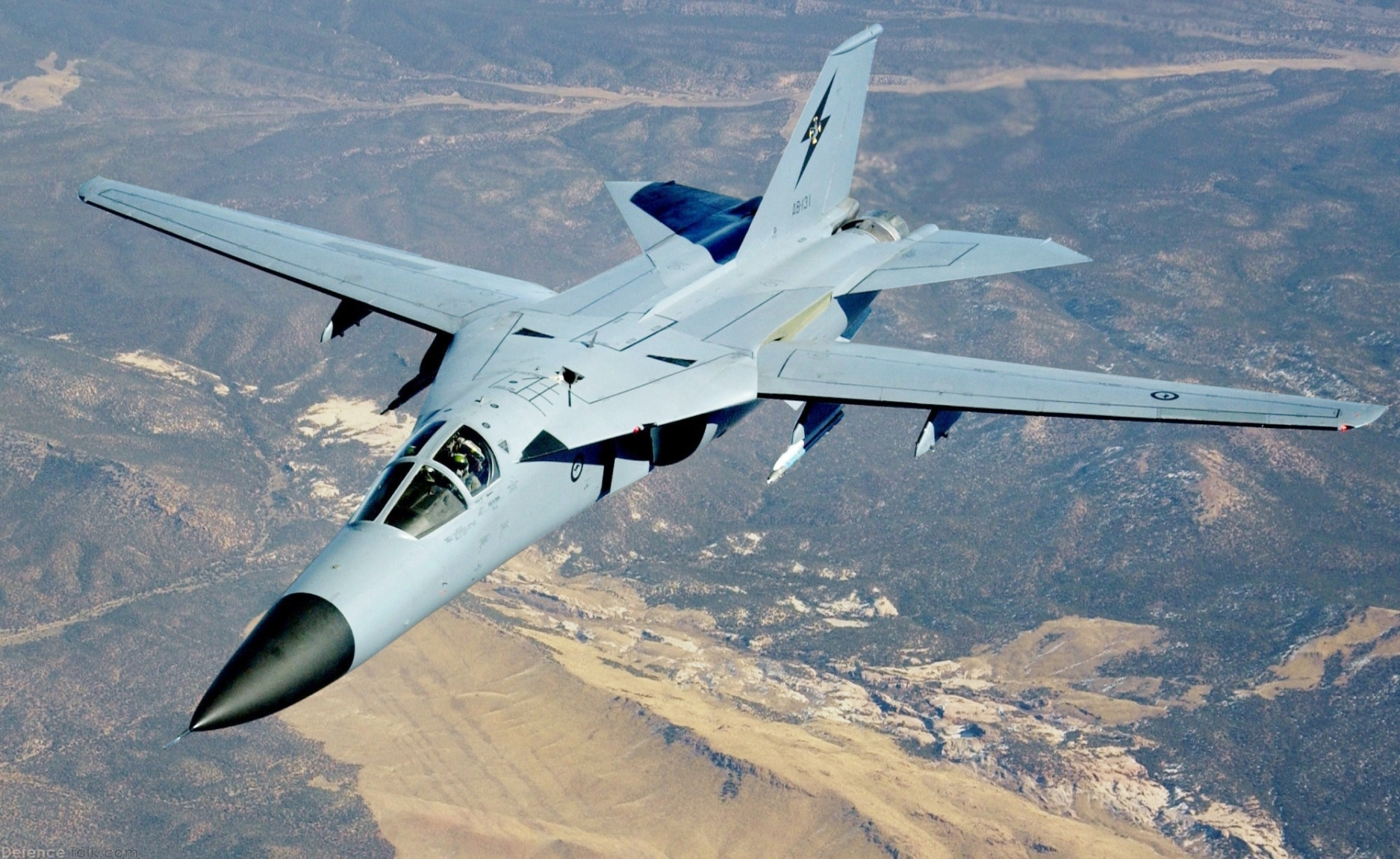 A Royal Australian Air Force F-111 flies to the ranges during Red Flag 06-1, at Nellis Air Force Base, Nevada. Red Flag tests aircrews' warfighting skills in realistic combat situations.